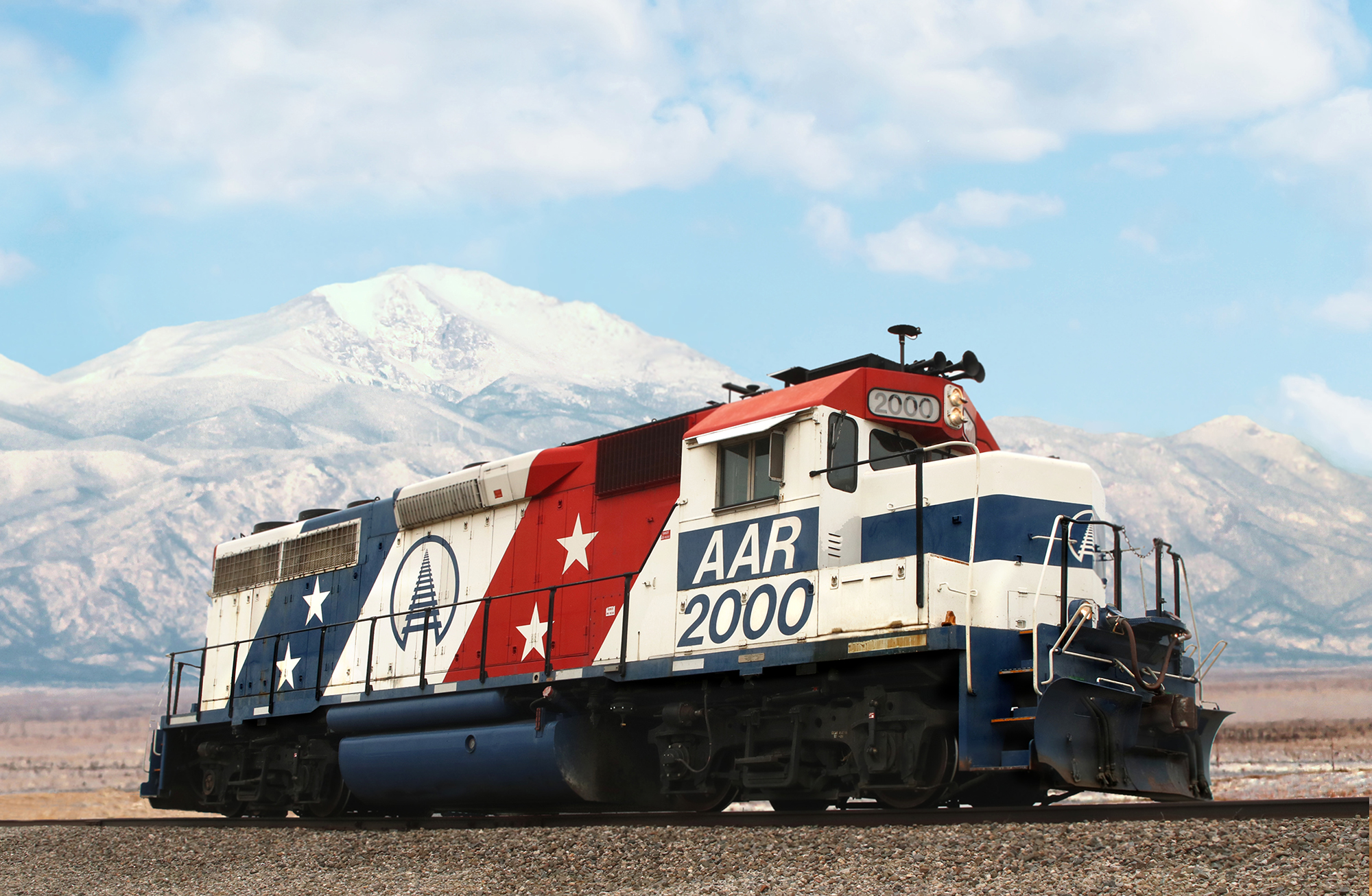 TTCI Train